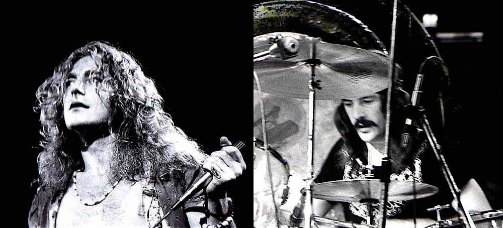 Robert Plant and John Bonham in 1975. Derivative work of: File:Robert-Plant.jpg by Dina Regine File:John Bonham 1975.jpg by Dina Regine